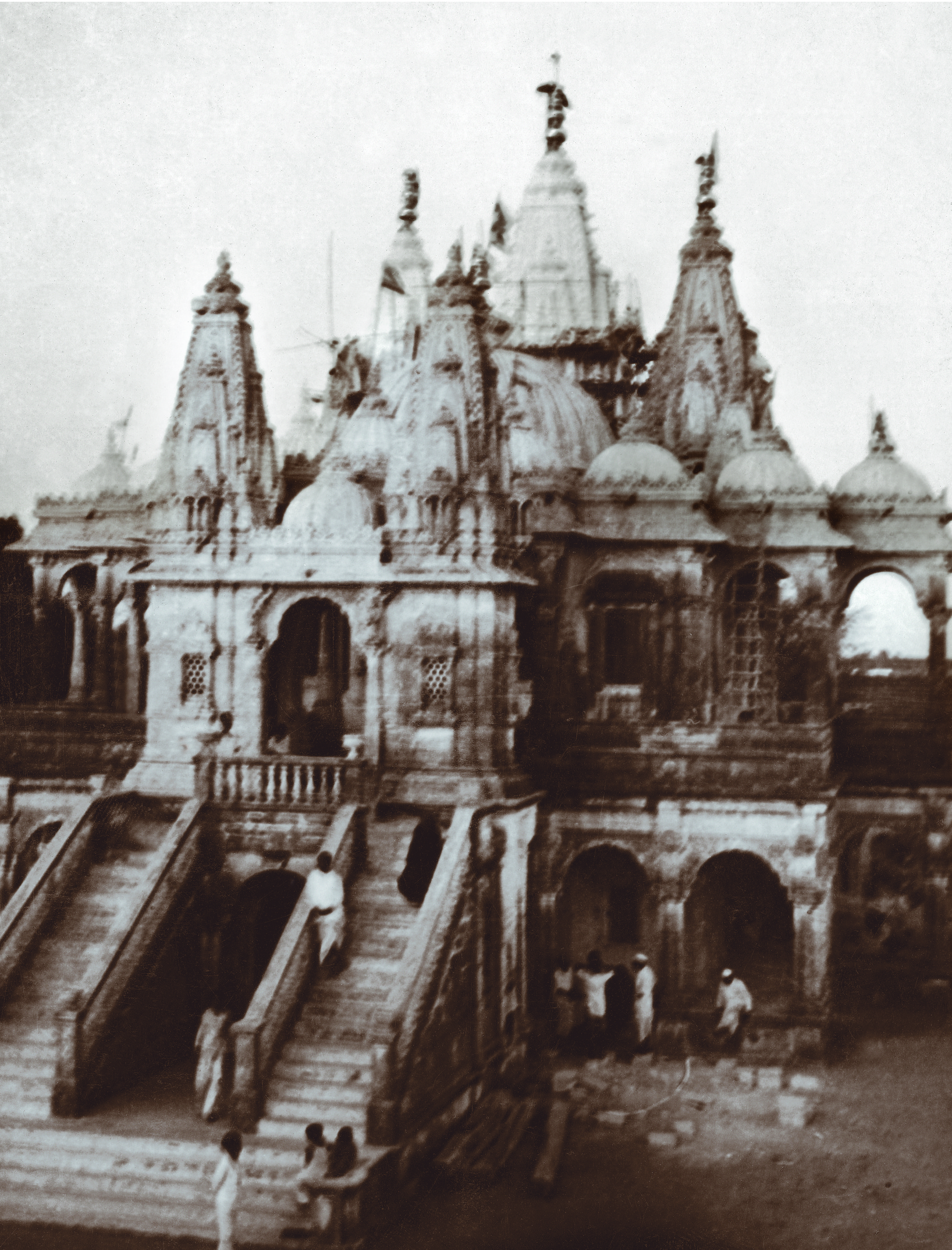 This is an old image of Akshar Mandir in Gondal, India taken shortly after it was consecrated.